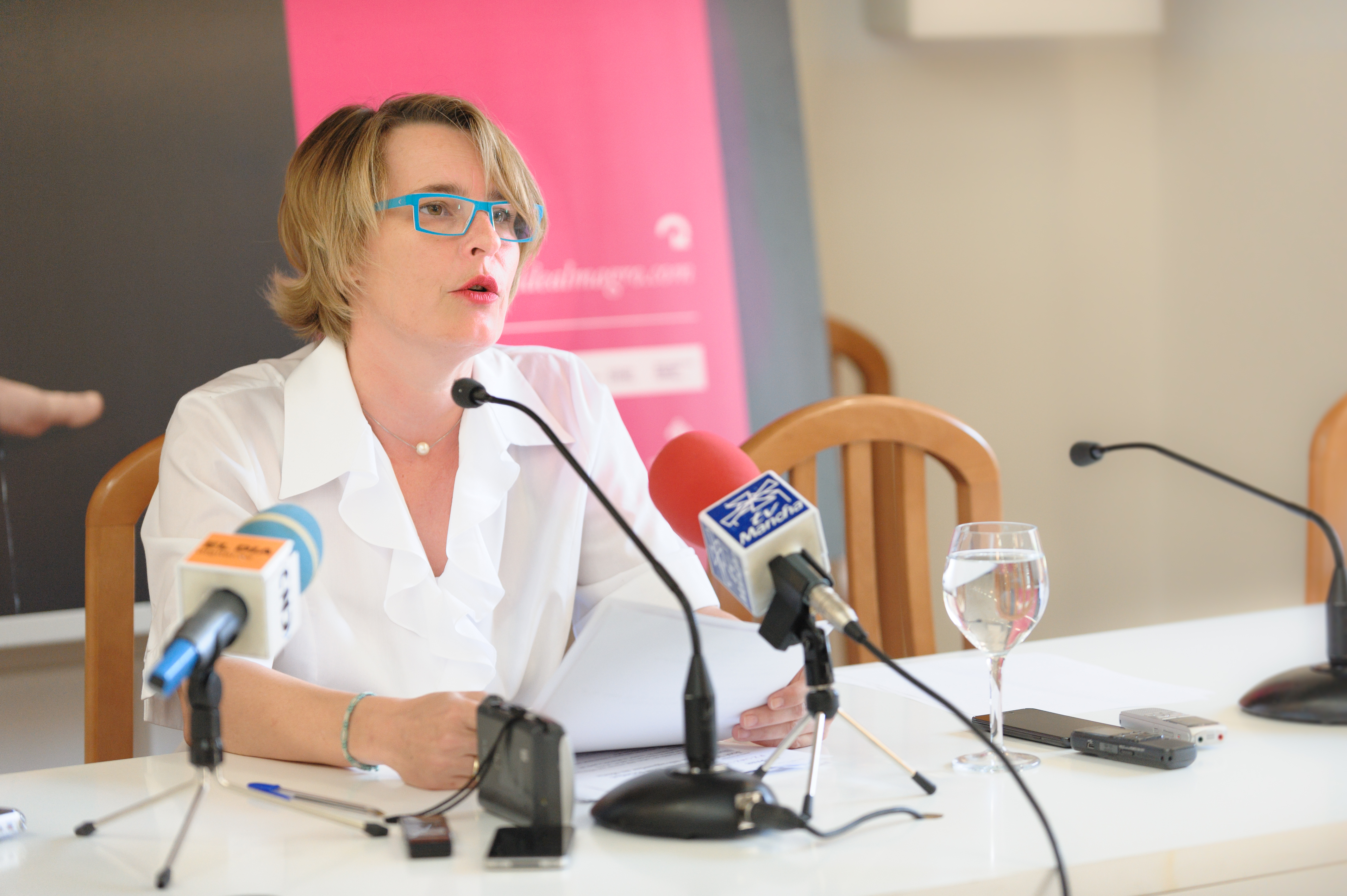 Natalia Menéndez presentando el balance de la 35 edición del Festival Internacional de Teatro Clásico de Almagro.